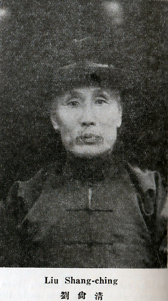 Liu Shangqing (Liu Shang-ch'ing) (1868 - 1947)